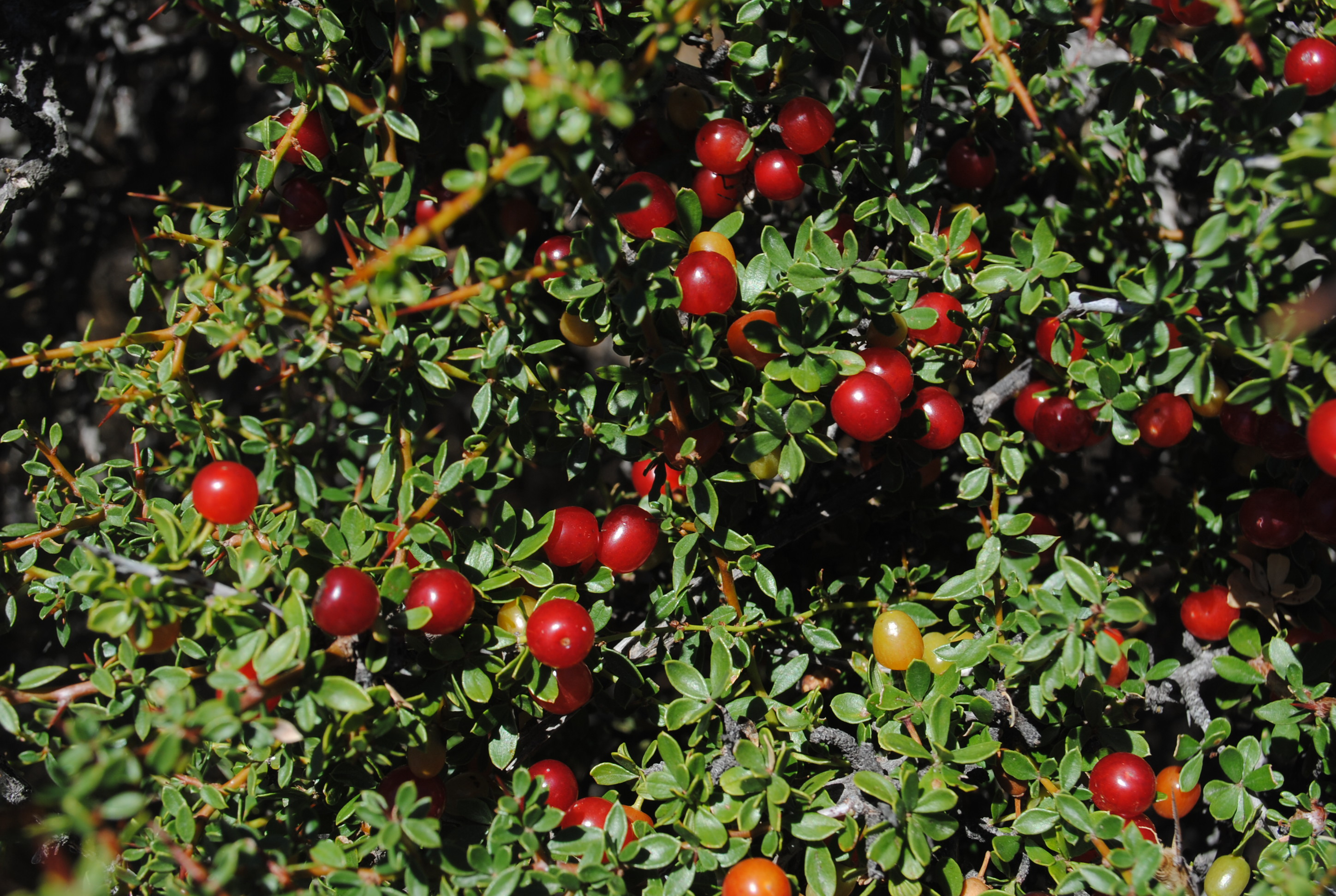 "Piquillín", Condalia microphylla plant bearing fruits at Las Grutas, Río Negro province, Patagonia, Argentina